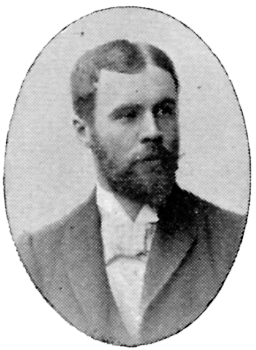 Image scanned from the book "Svenskt Porträttgalleri XX - Arkitekter, Bildhuggare, Målare m.fl. " ("Swedish Portrait Gallery XX - Architects, Sculptors, Painters, ") published 1901